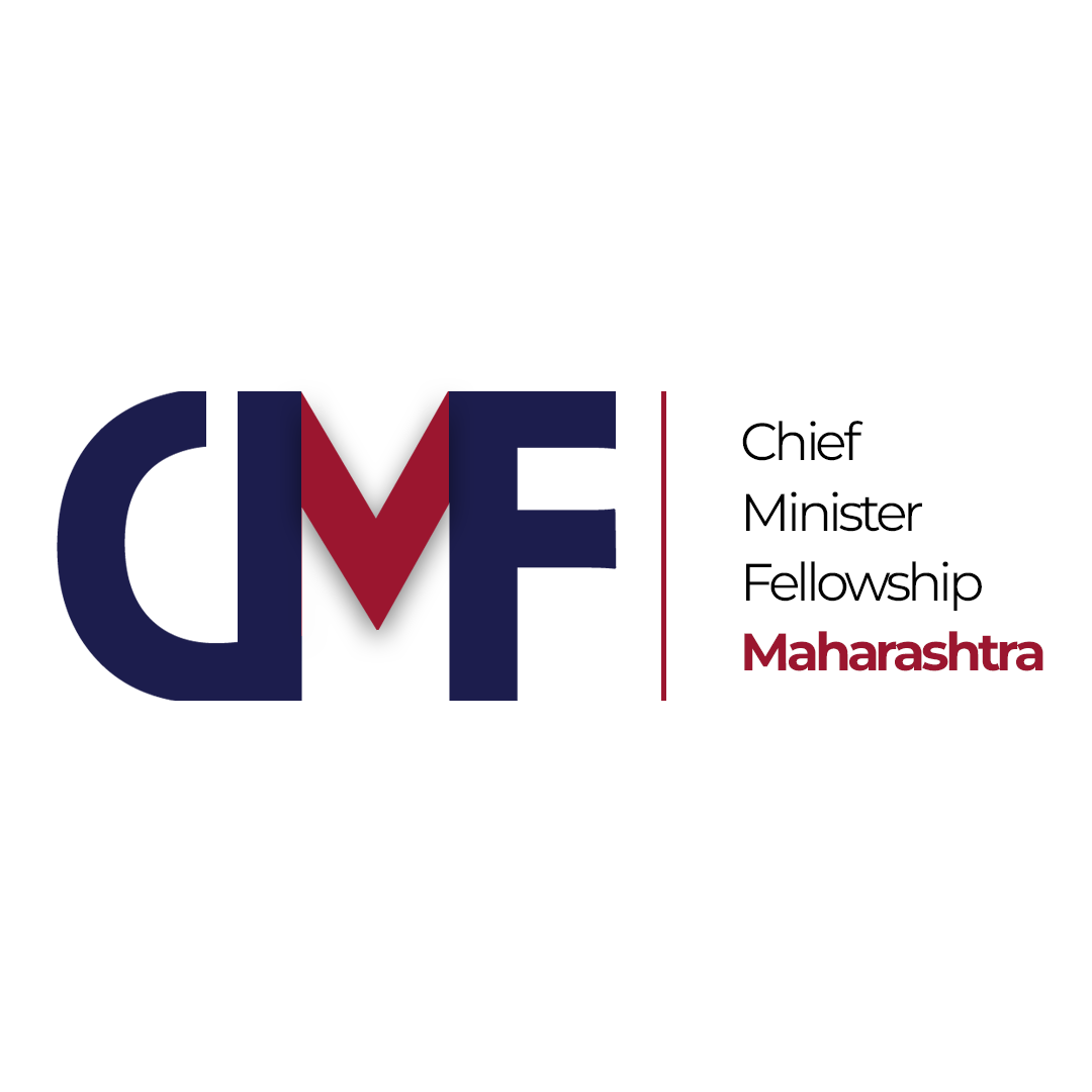 Logo of the Maharashtra Government's Chief Minister's Fellowship